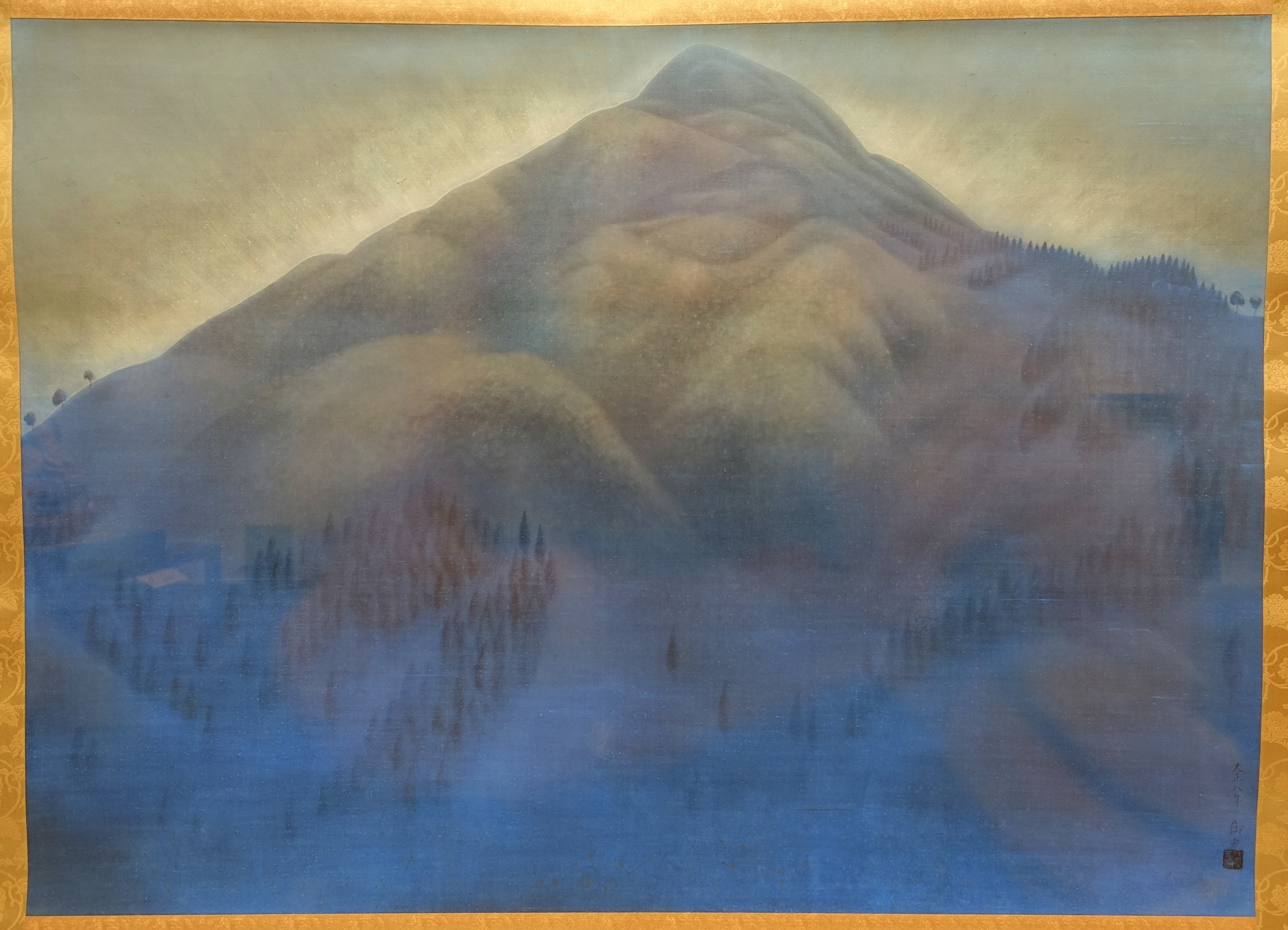 Exhibit in the Tokyo National Museum - Tokyo, Japan.